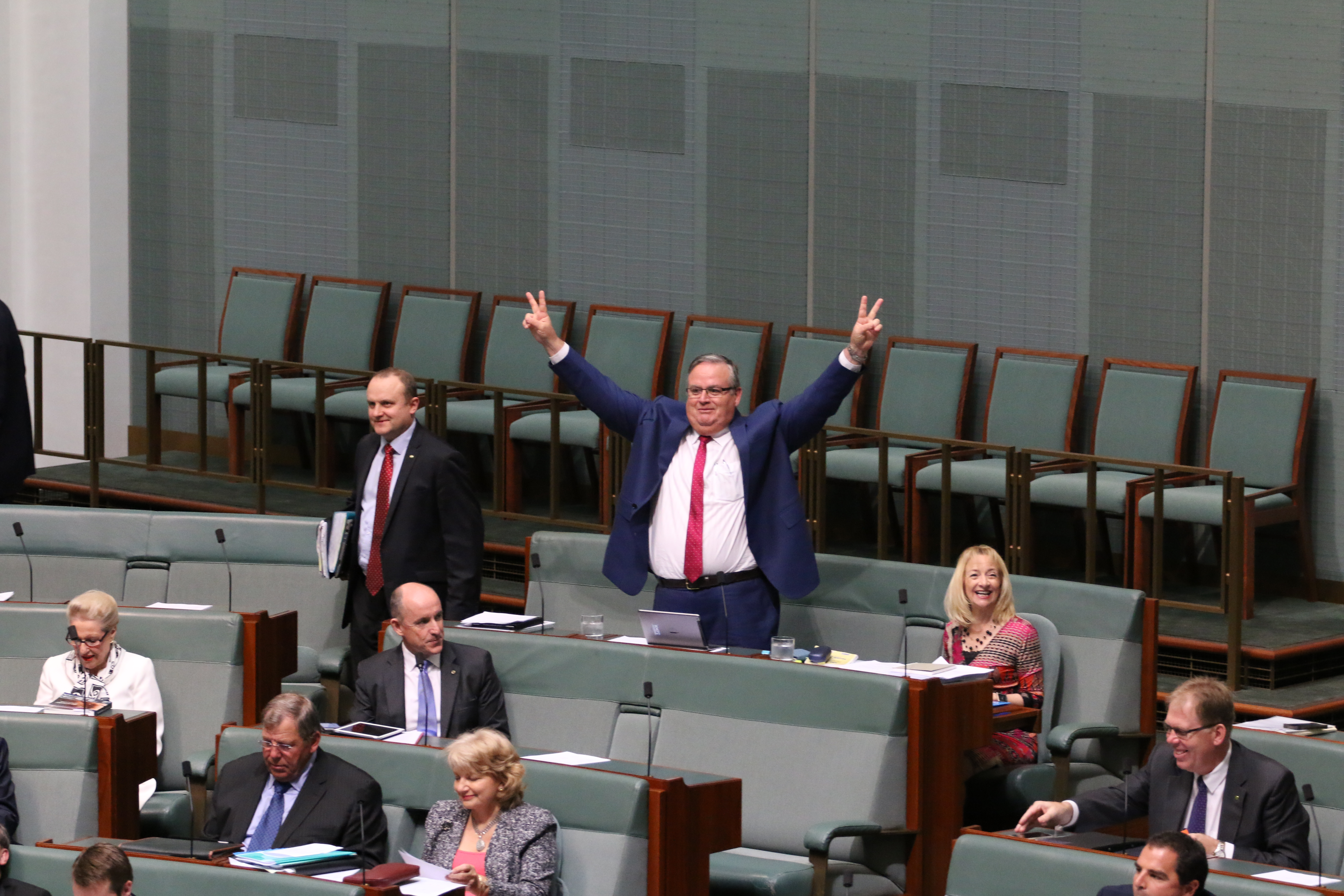 Template:Ewen Jones, MP, in the Australian House of Representatives